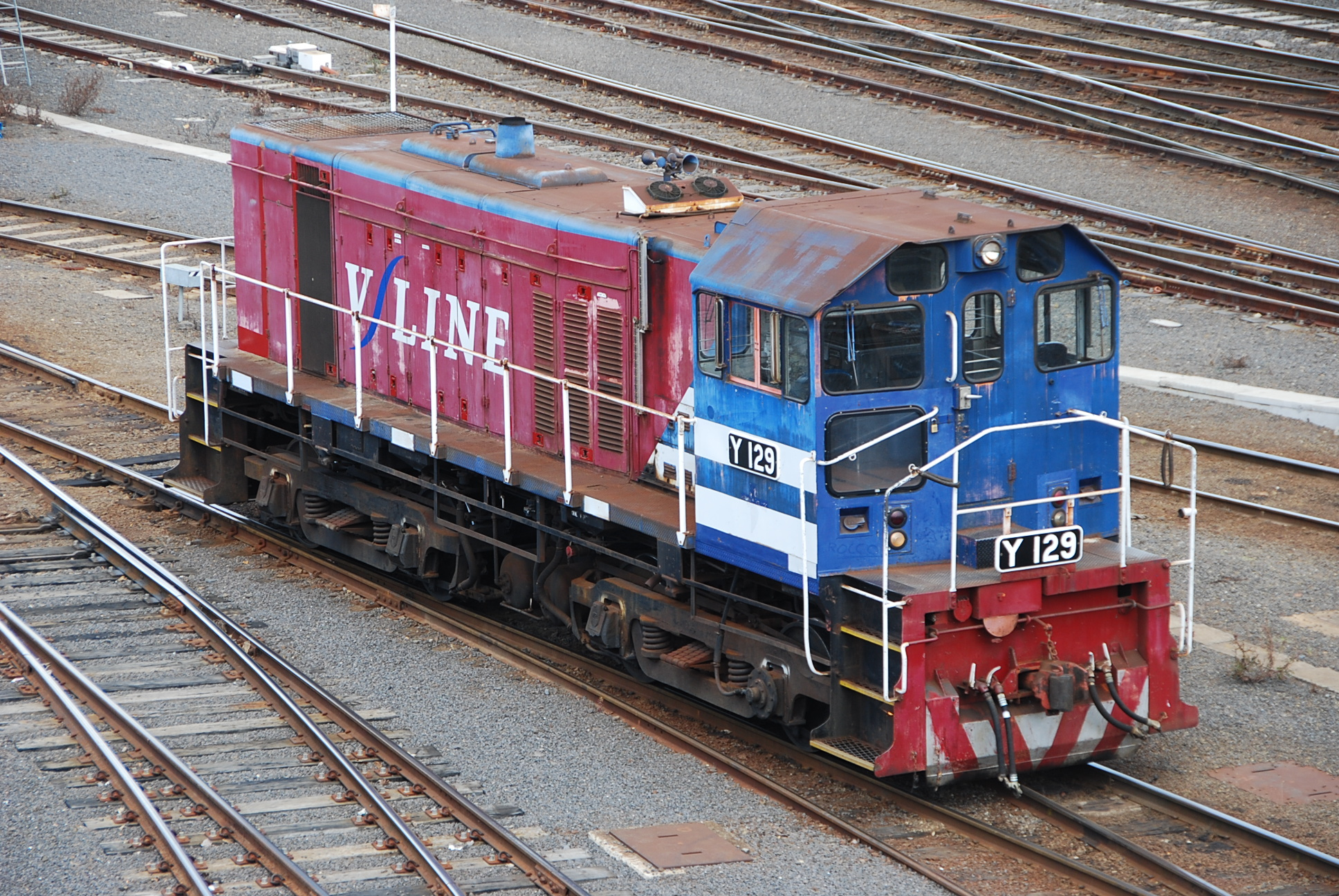 V/Line locomotive Y129 idles near Southern Cross. October 2011.